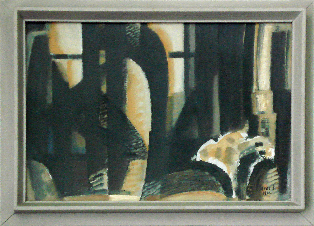 Picture of János Seres, Hungarian painter, Miskolc, Hungary